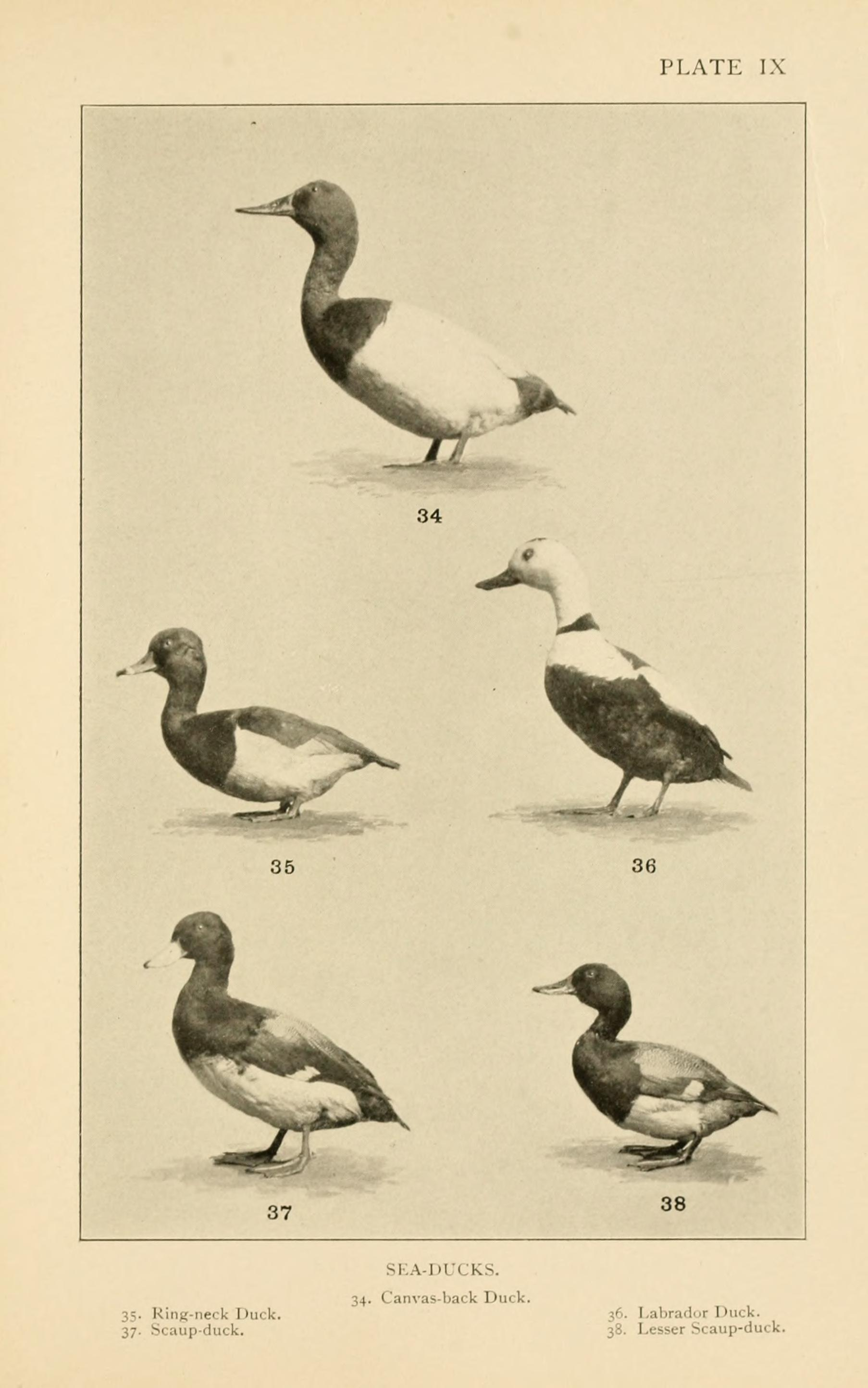 Title: Our feathered game; a handbook of the North American game birds Year: 1903 (1900s) Authors: Huntington, Dwight W. (Dwight Williams), 1851-1938 Subjects: Game and game-birds Publisher: New York, C. Scribner's Sons Text Appearing Before Image: GEESK AND TREE-DUCKS. 28. Lesser Snow-goose.30. White-fronted Cliwse.32. Fulvous Tree-duclc. 29. Blue Goose. 31. fireater Snow-goose. 33. Black-bellied Tree-duck. PLATE IX Text Appearing After Image: 35. King-neck Duck.37. Scaup-duck. SKA-DUCKS.34. Canvas-back Duck. 36. Labrador Duck.38. Lesser Scaup-duck. PLATE X